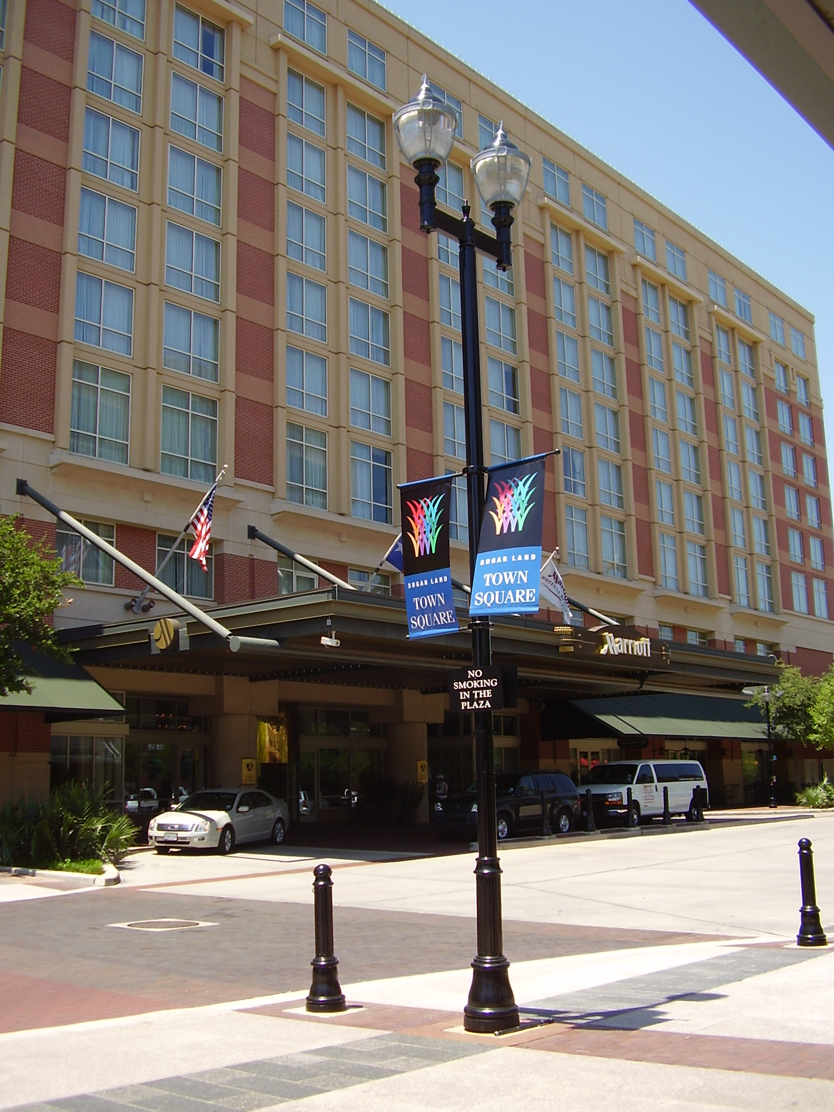 Marriott at Sugar Land Town Square in Sugar Land, Texas